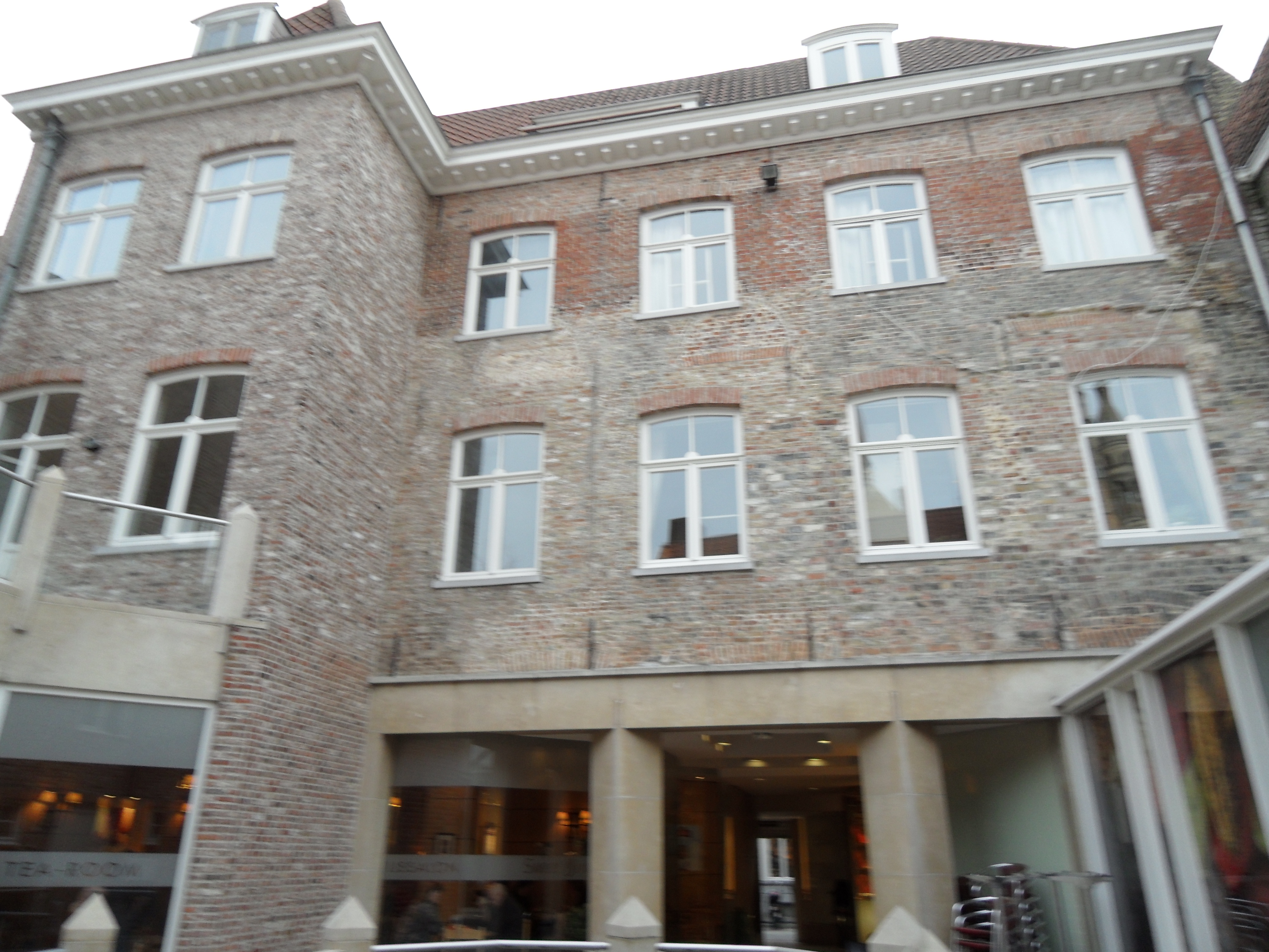 Gevel van de 'Oude Steen', Wollestraat 29 in Brugge